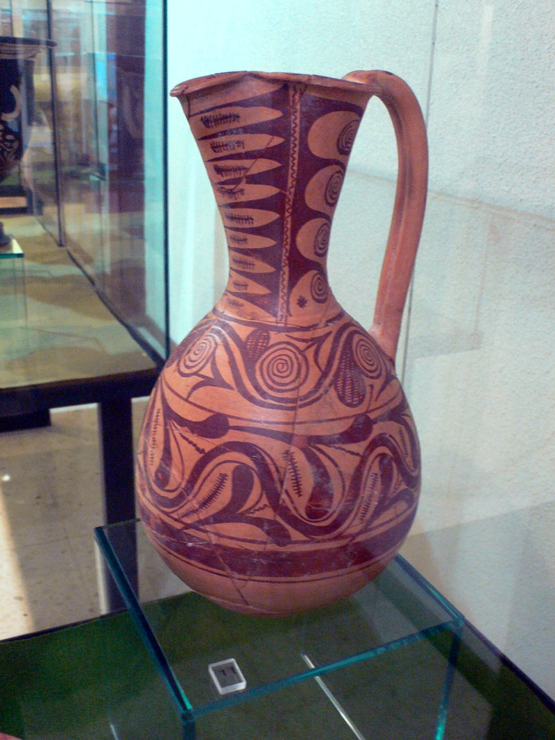 Iberian Oinochoe. Archaeological museum of Cartagena (Spain)